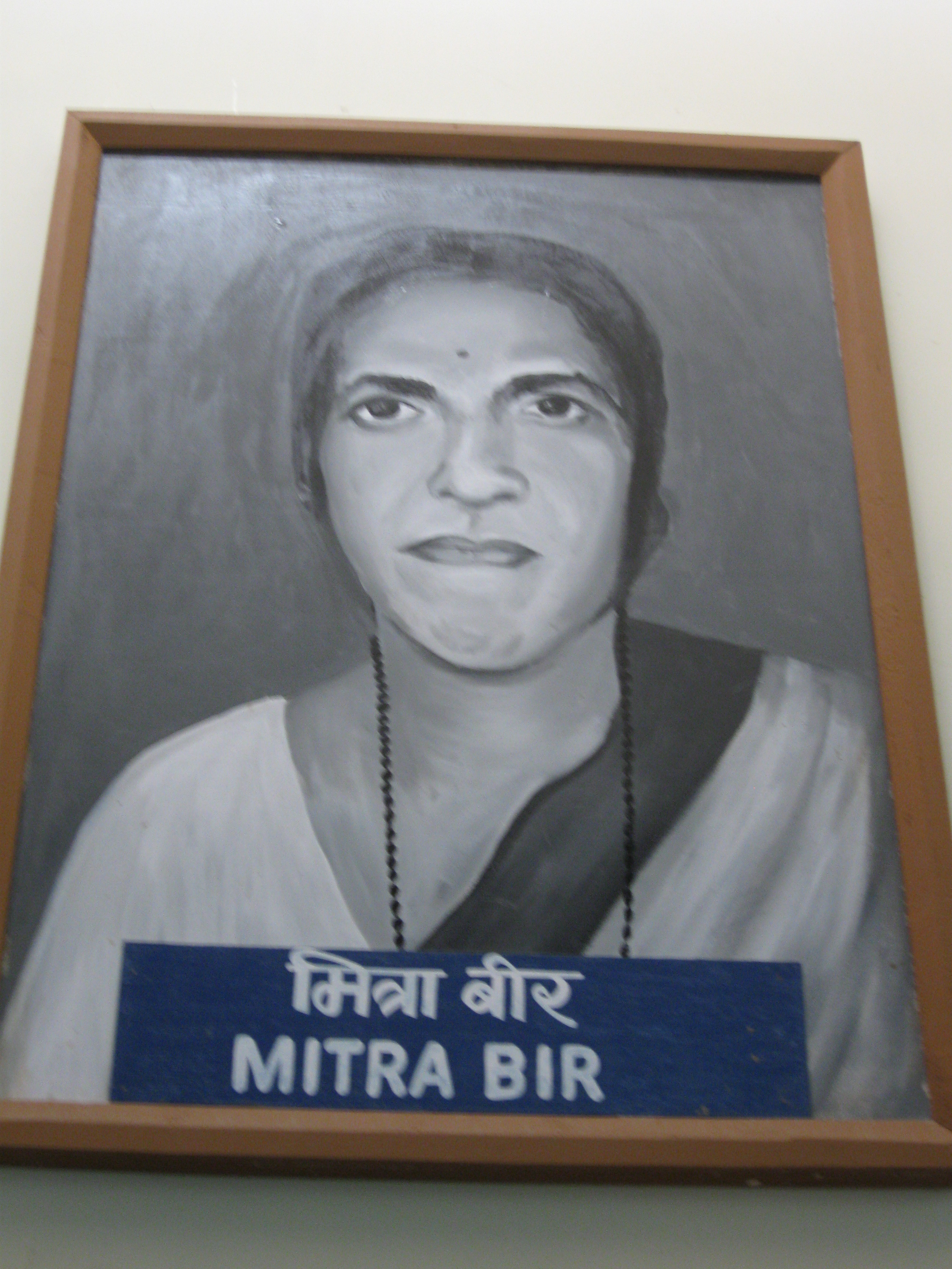 Key Figures in Goa Independence, Mitra Bir